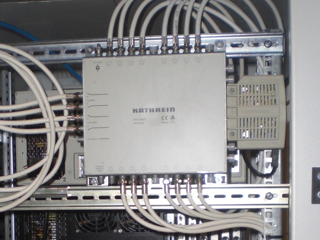 a Kathrein EXR5016T multiswitch (somewhat unusual installation in a rack)